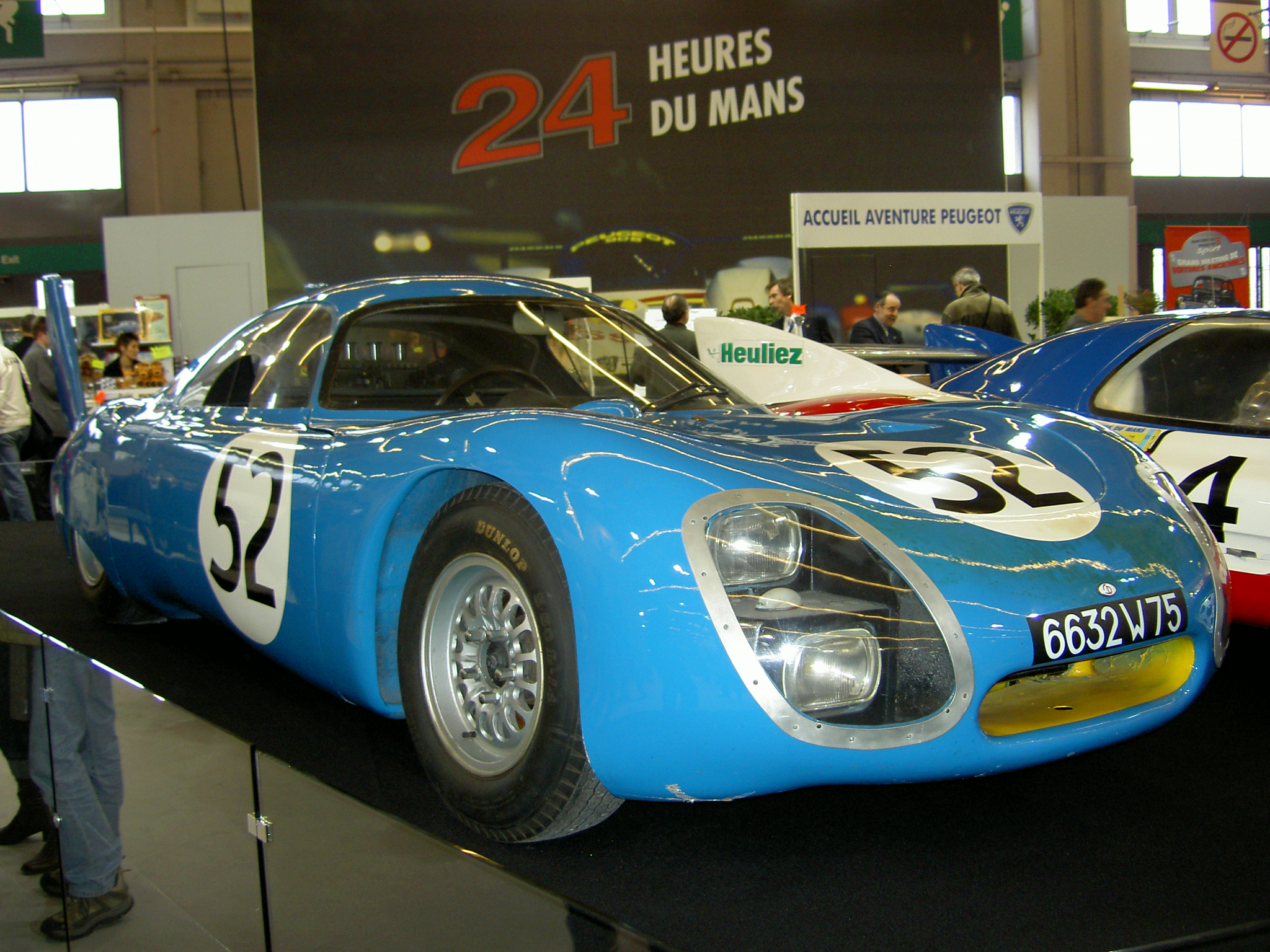 CD-Peugeot (French car)